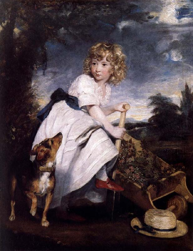 Master Henry Hoare as The Young Gardener, Sir Joshua Reynolds 1788, 1789, Portrait of Master Henry Richard Hoare